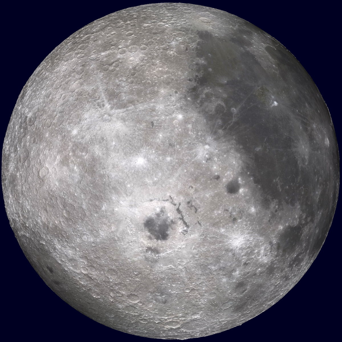 Near side lunar phase image set rendered by Jay Tanner - 2014. Size : 1200x1200 pixels Format : JPEG Author : Jay Tanner - 2014 License : These images are released under the provisions of the Creative Commons Attribution-ShareAlike 3.0 license. The image set consists of 361 images of the geocentric moon with 3D relief at 1-degree intervals of phase measured positively counterclockwise around the sky, eastward, from 0 to 360 degrees. Phase Orientation Legend: New = 0 degrees First Quarter = 90 Full = 180 Last Quarter = 270 New = 360